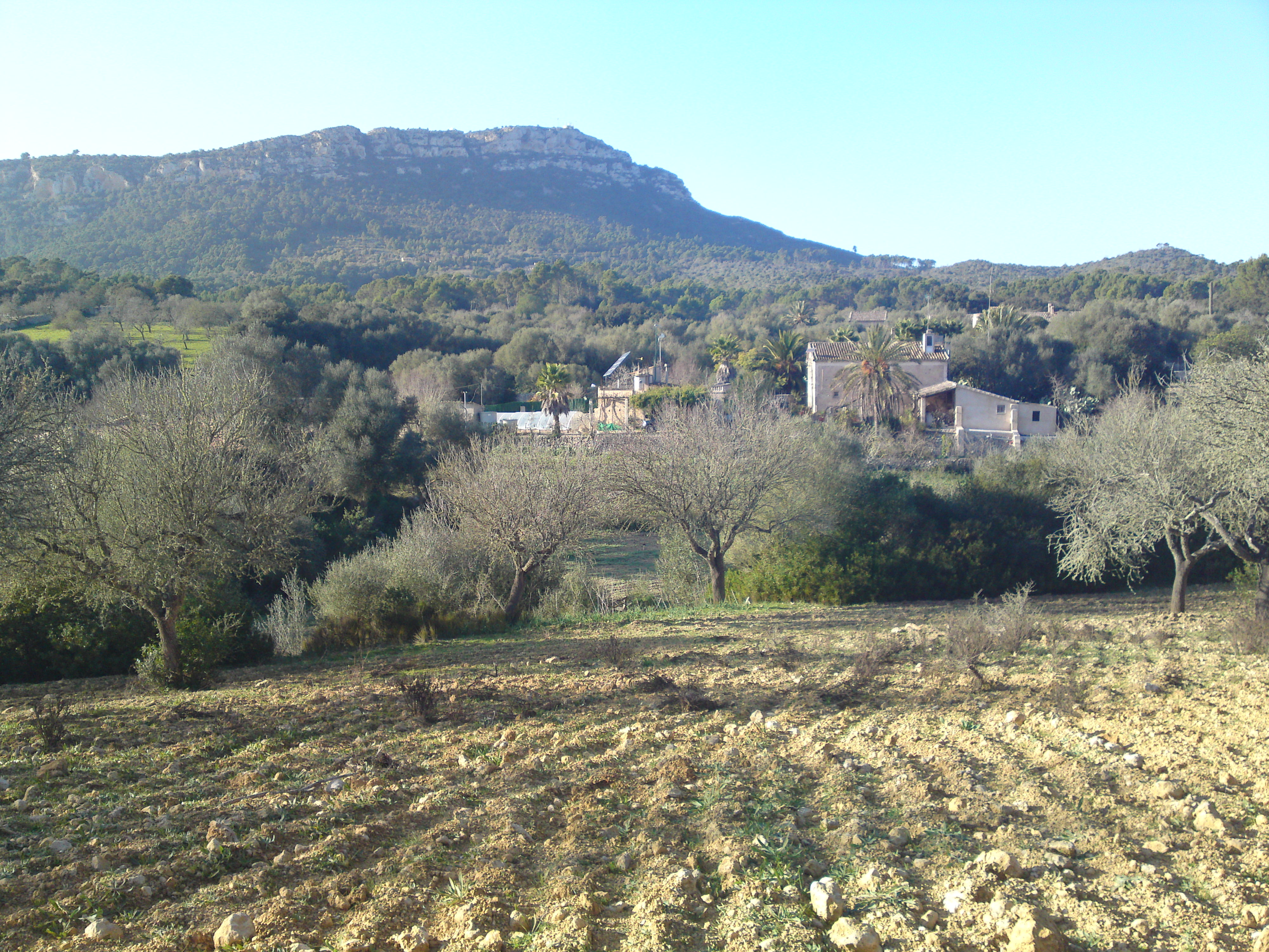 Binilagant, an area in Llucmajor, Mallorca. In the foreground, the New Binilagant hill; background, Binilagant New houses, and behind these, Binilagant old houses, and the bottom (right to left), the Red cliff, in the nose of pier (cliff of the mountain of Care) and, in small houses Son Guerau.